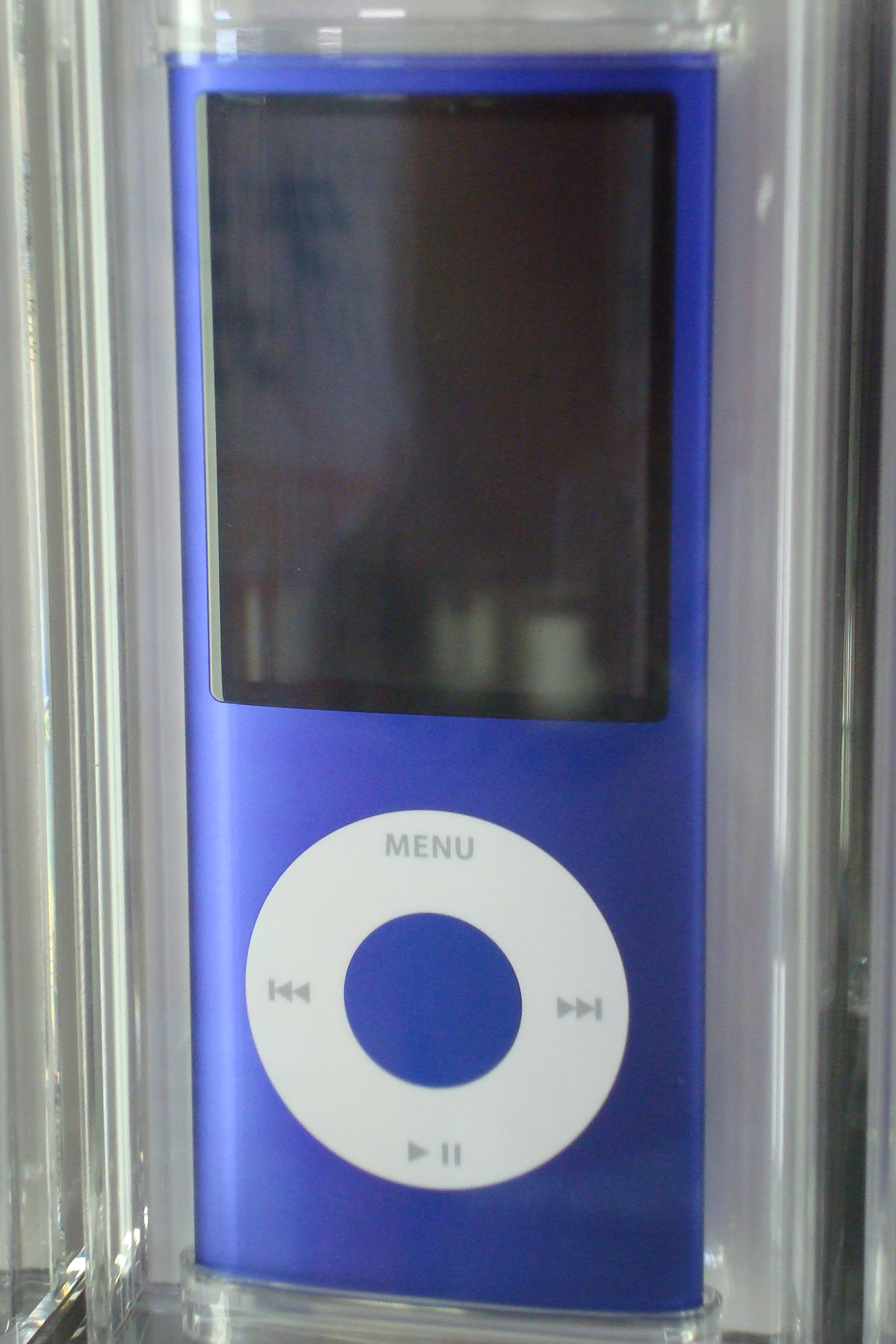 Purple 4th-generation iPod Nano 8GB version on sale in Japan. The bluish appearance is due to the effects of fluorescent lighting, but this is definitely the purple version.